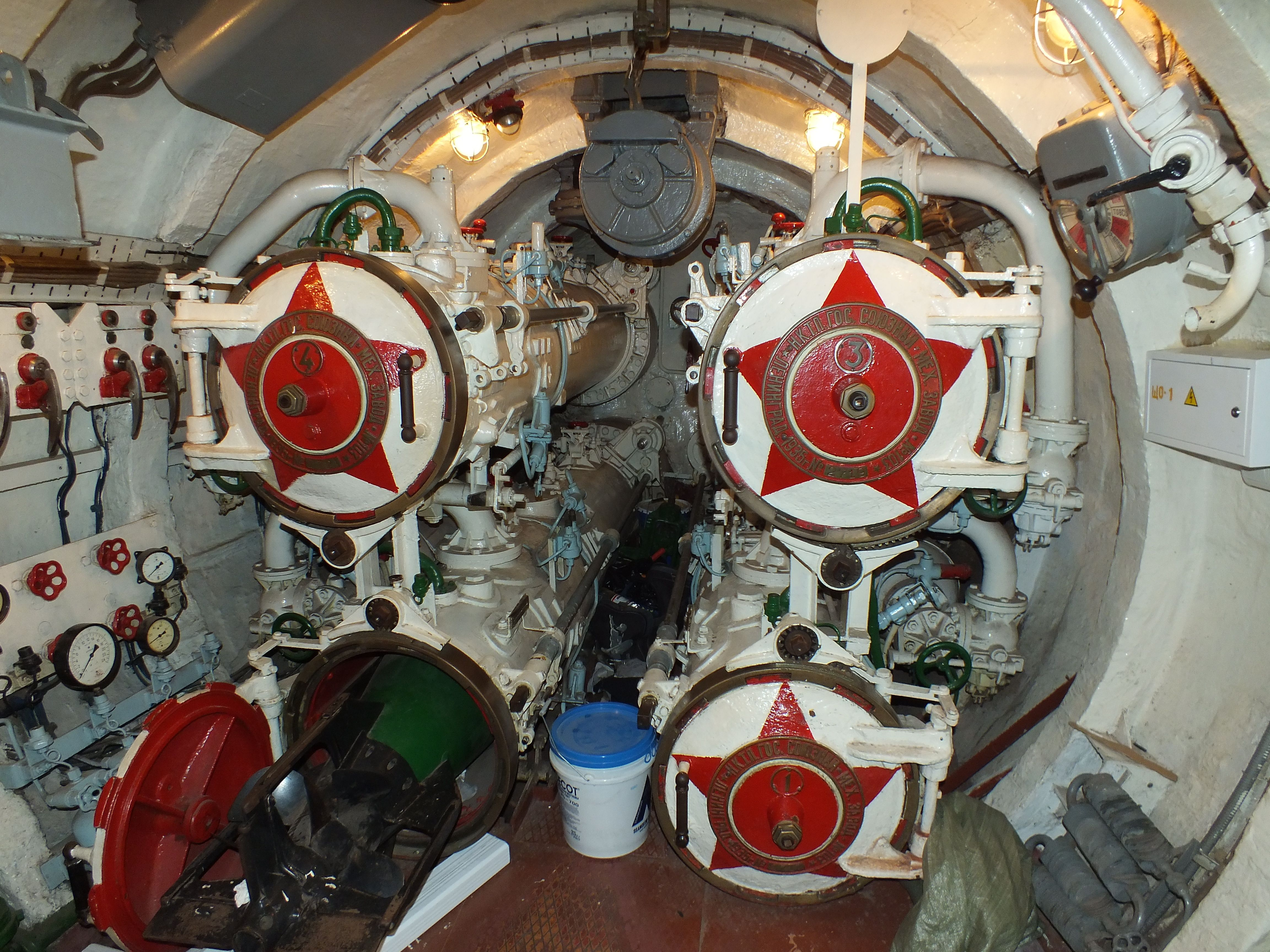 S-56 Submarine Monument (Vladivostok)